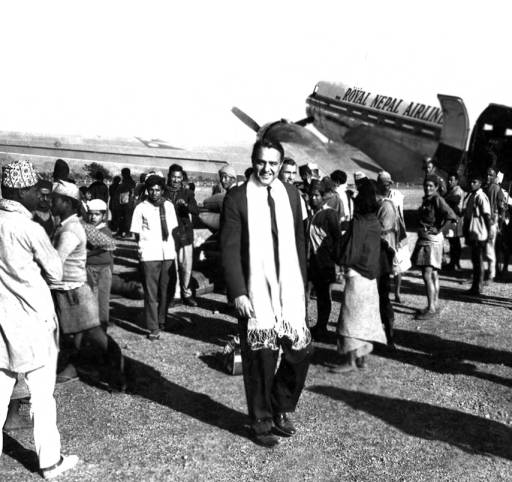 This photo shows Sargent Shriver paying a visit to Peace Corps Volunteers in Nepal in 1964.